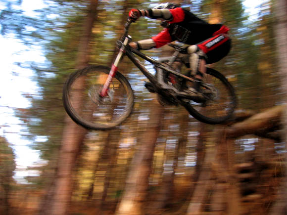 Drop: Phil Moore dropping off at Wharncliffe